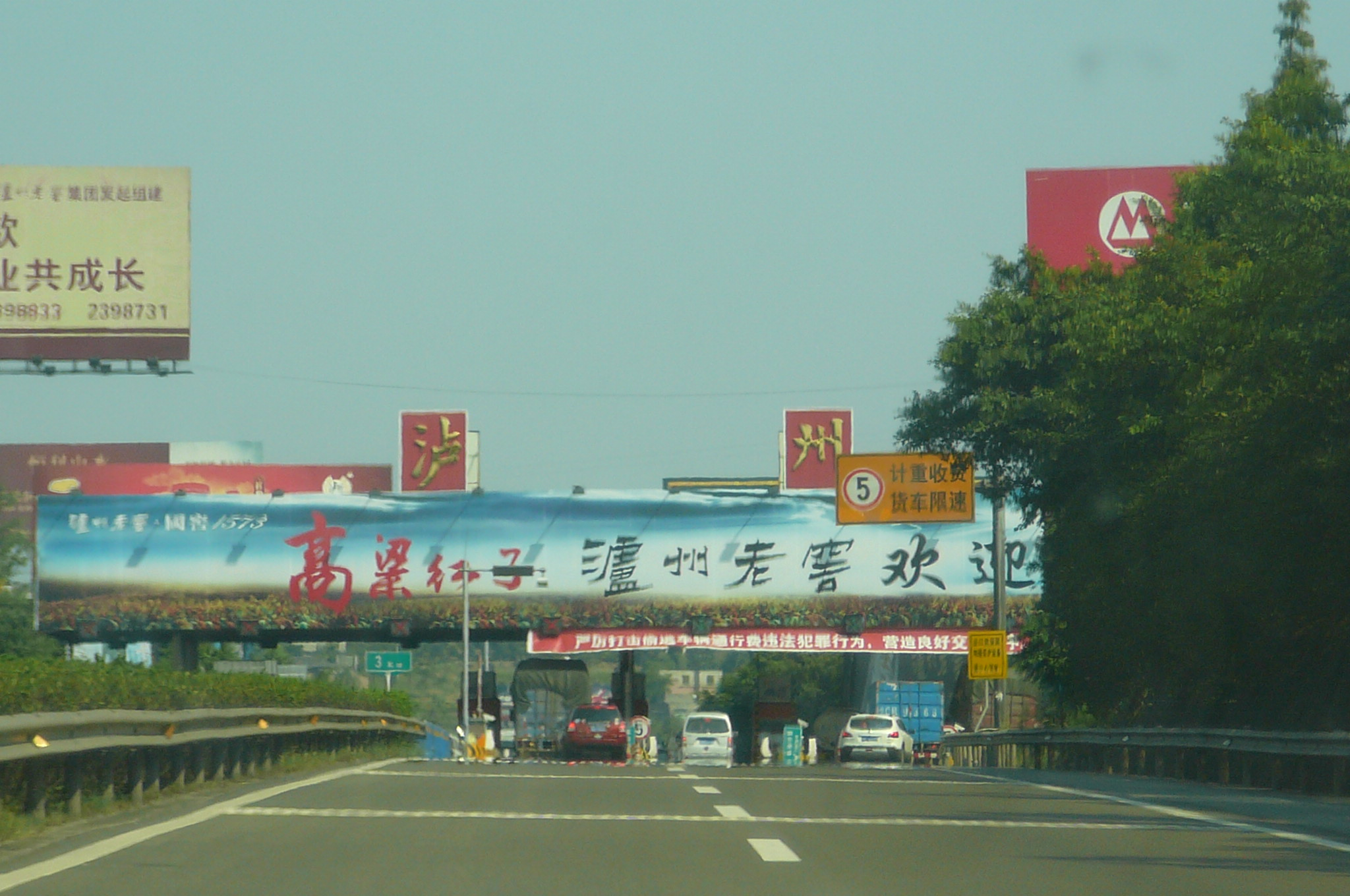 Longna EXPWY